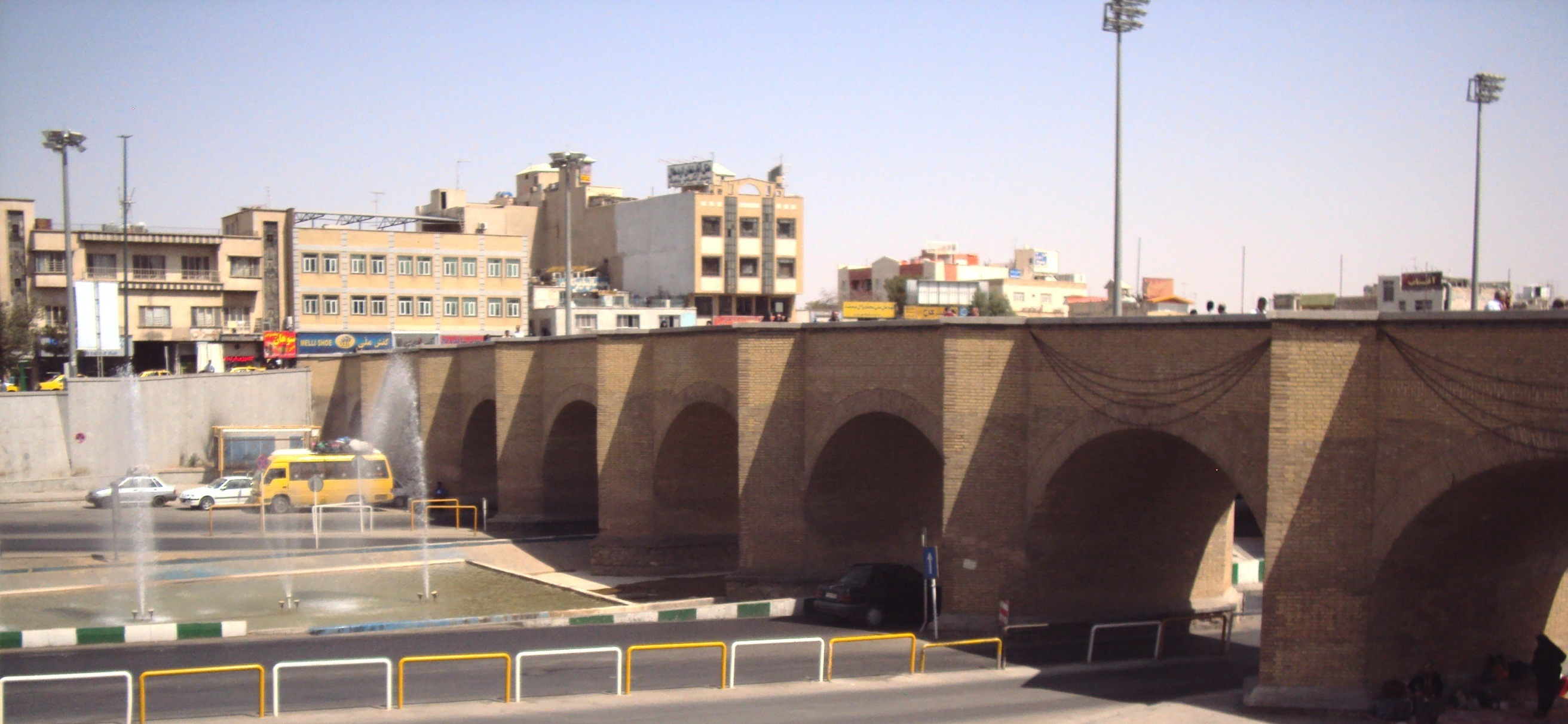 Ahanchee Bridge - Iran, Qom